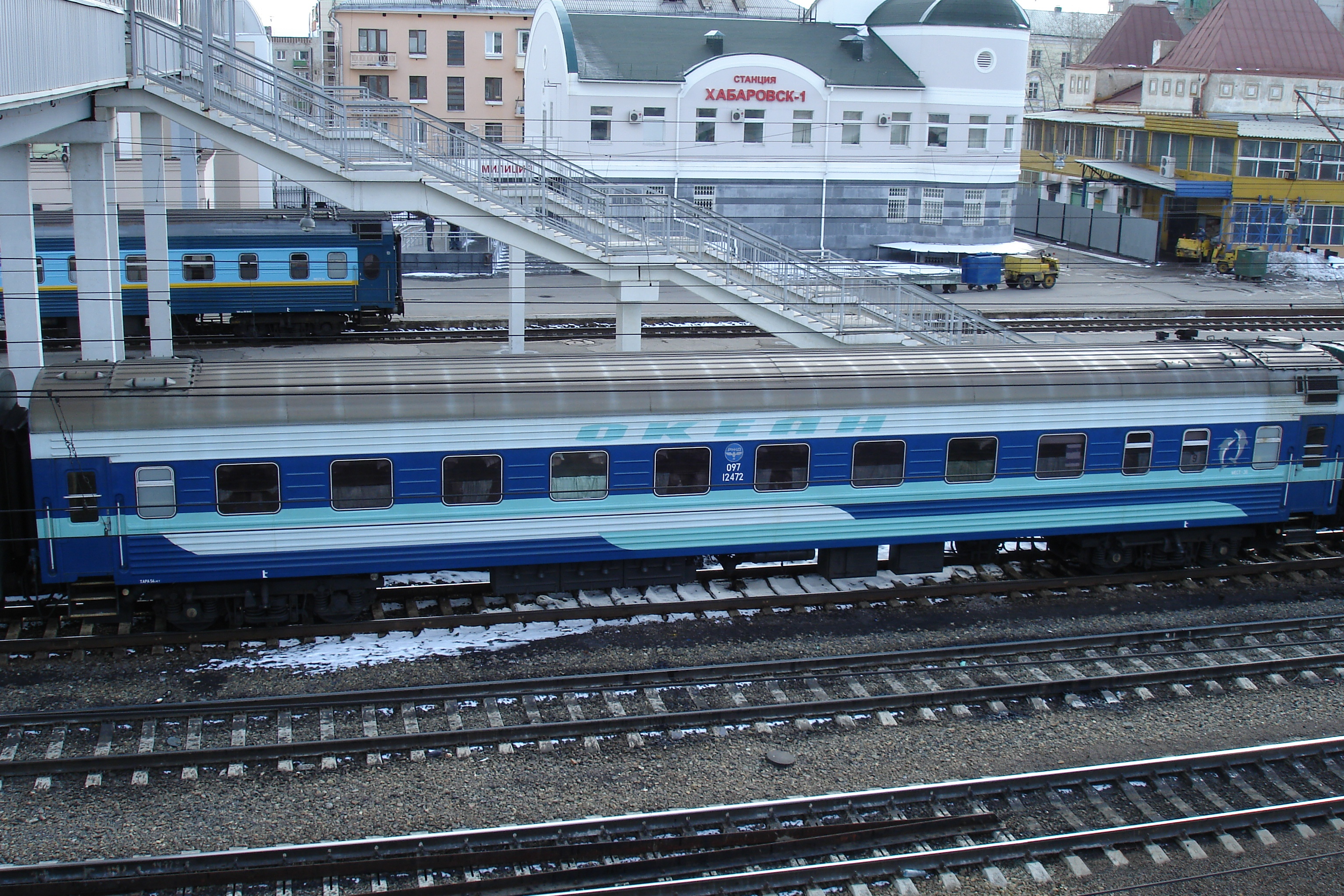 Named passenger train Okean on Khabarovsk-1 station.